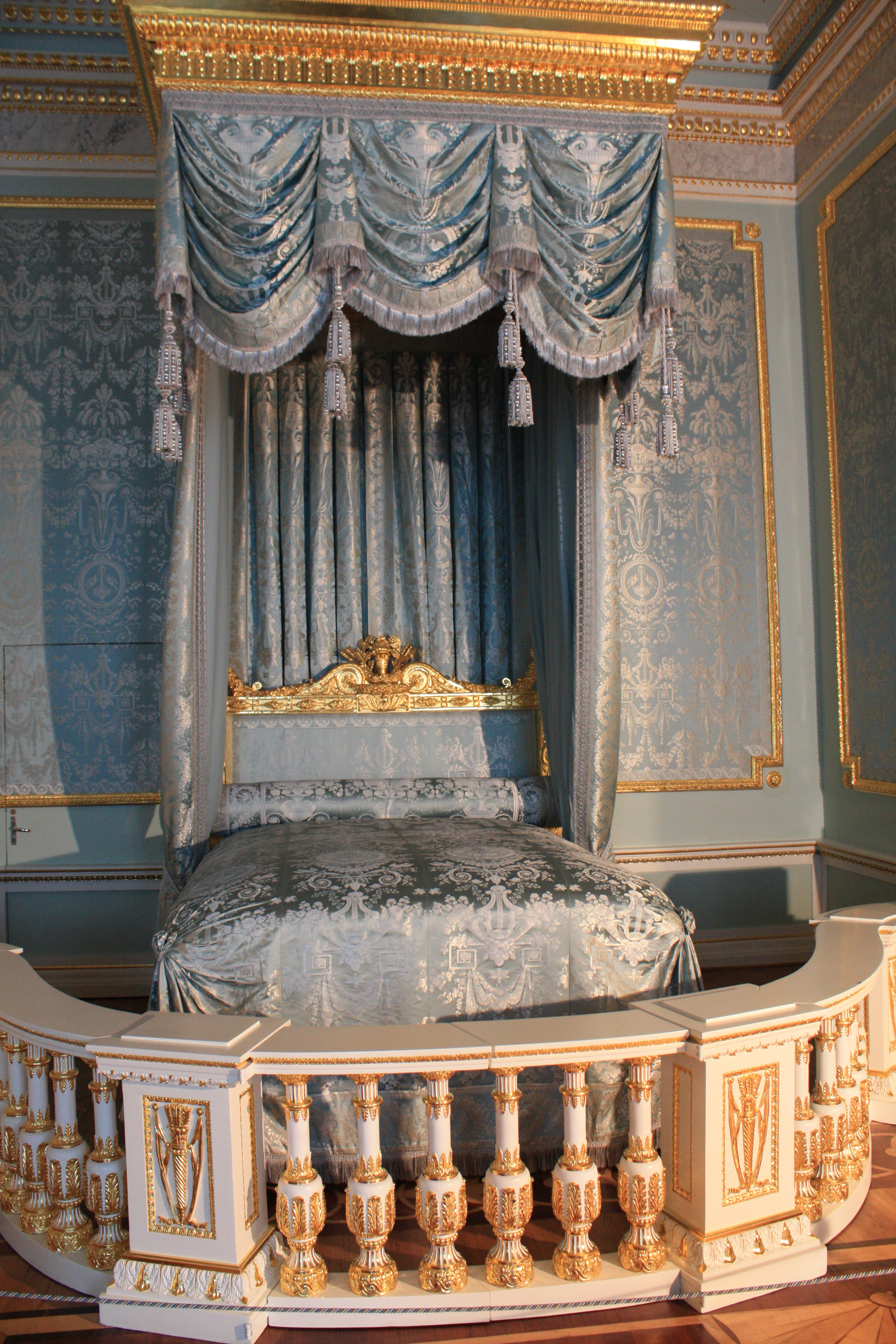 Front bedchamber in the Big Gatchina Palace.